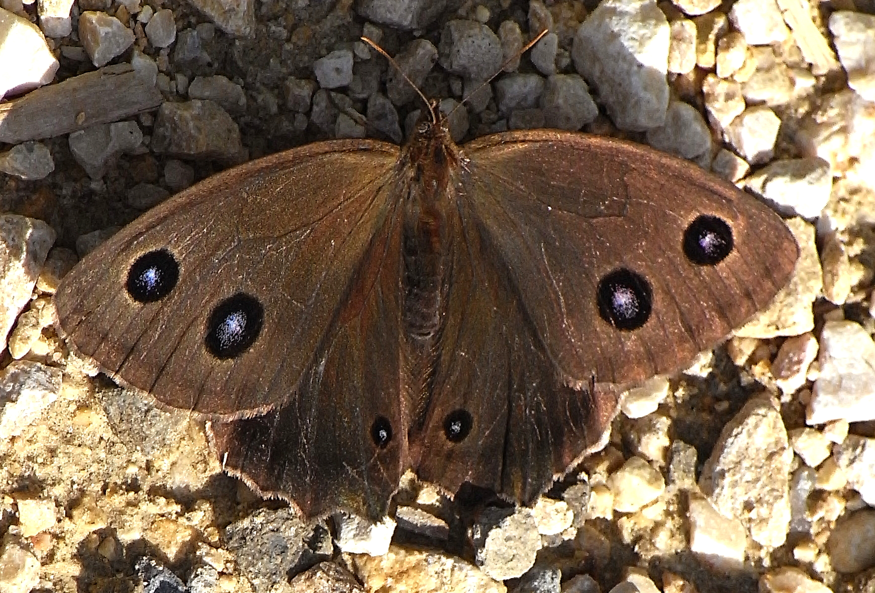 Minois dryas Ricoh R8